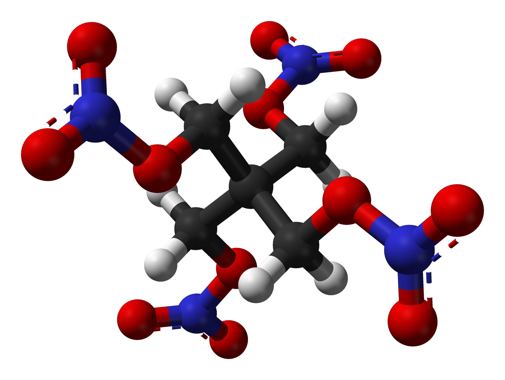 Ball-and-stick model of the pentaerythritol tetranitrate molecule, C5H8N4O12, as found in the crystal structure. Colour code: Carbon, C: grey-black Hydrogen, H: white Nitrogen, N: blue Oxygen, O: red Structure (determined by X-ray crystallography) from J. Am. Chem. Soc. (2006) 128, 14728–14734. Model manipulated in CrystalMaker 8.3. Image generated in Accelrys DS Visualizer.